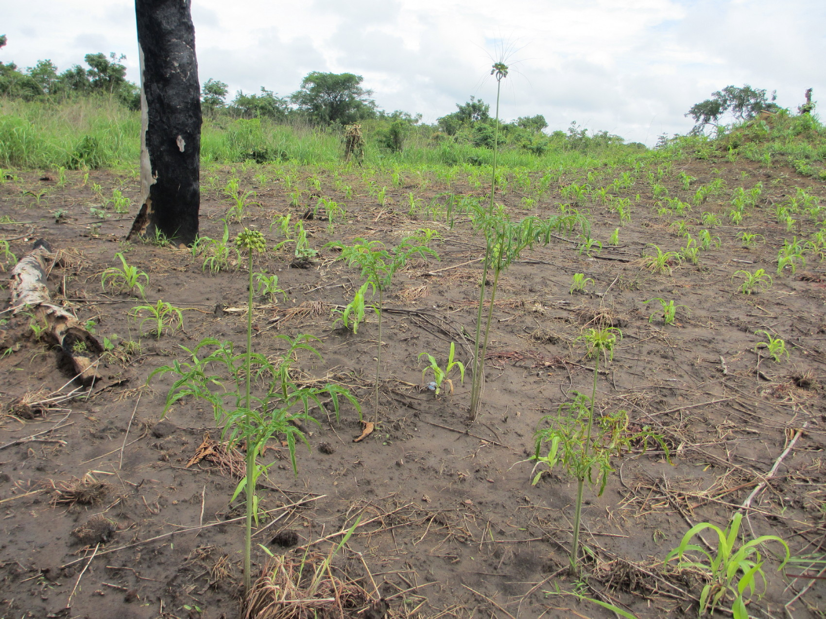 shifting cultivation